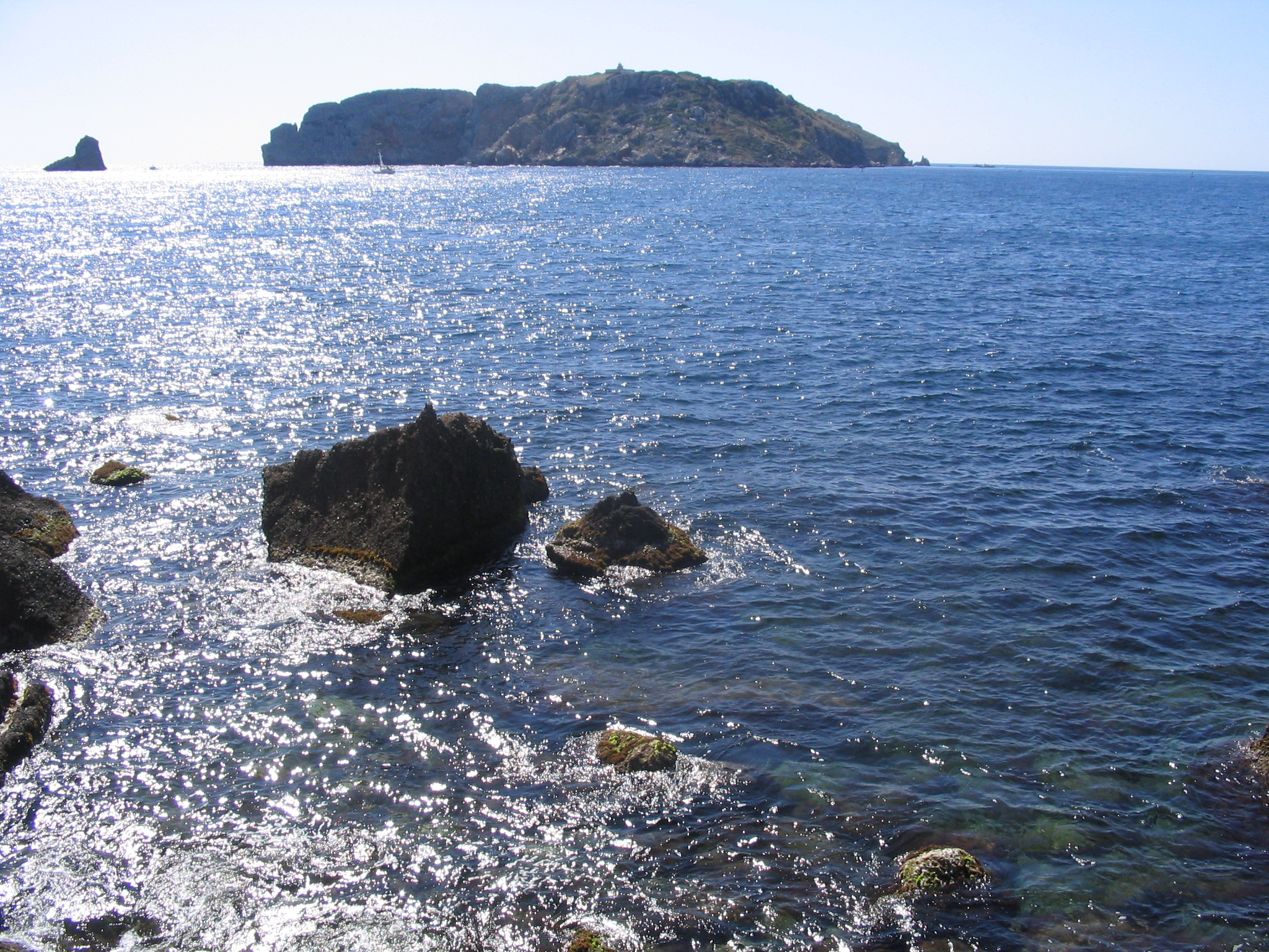 Medes islands